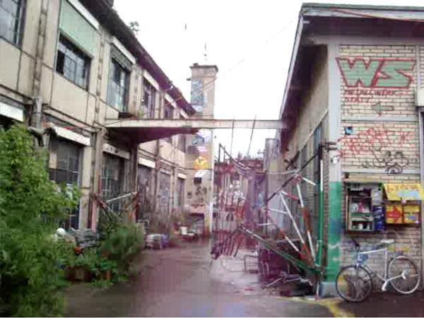 the Binz-Squat in Zurich, Switzerland